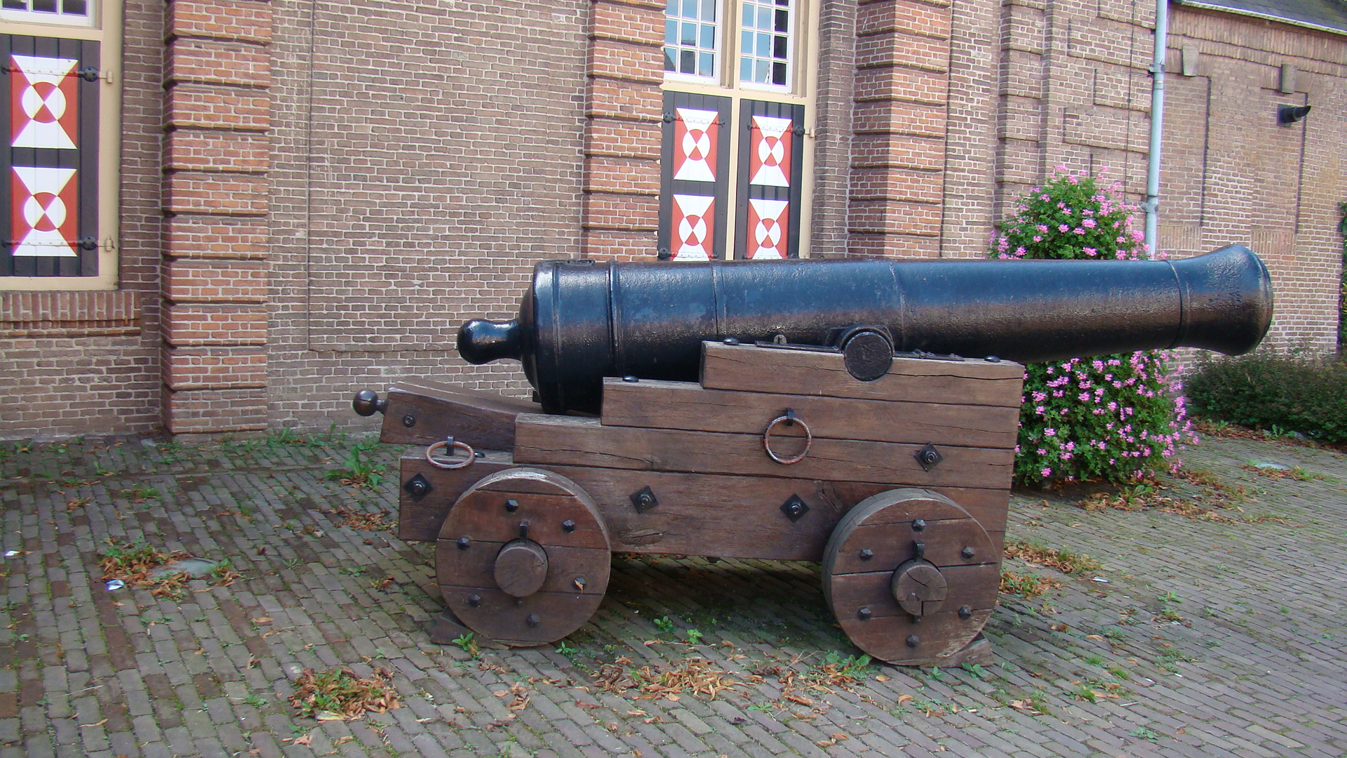 Canon at the Grave Citygate